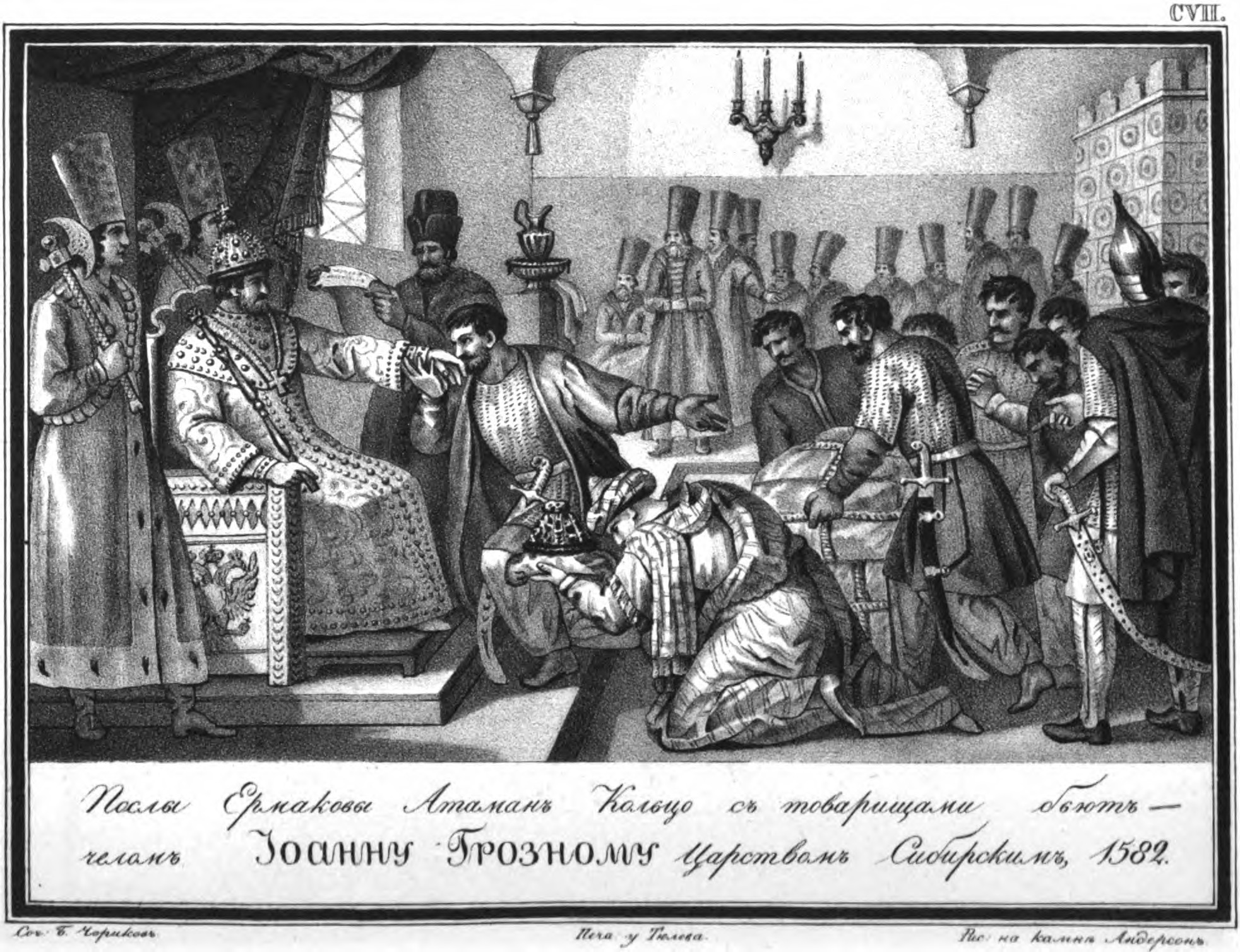 Illustration plate from the book Живописный Карамзин (1836), depicting the history of Russia.